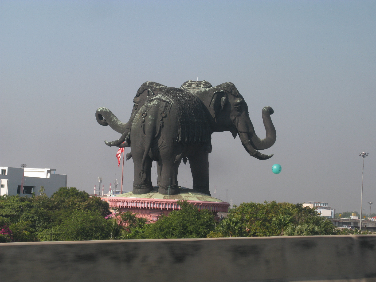 The 3 headed Elephant outside Bangkok